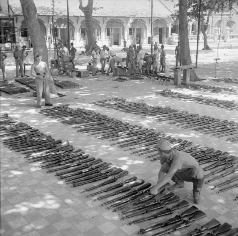 The Allied Reoccupation of French Indo-china A British officers watches one of the Japanese prisoners of war tasked with cleaning and oiling the thousands of surrendered weapons at the prisoner of war camp at Cape Saint Jacques. After cleaning the weapons were crated and sent for storgae.